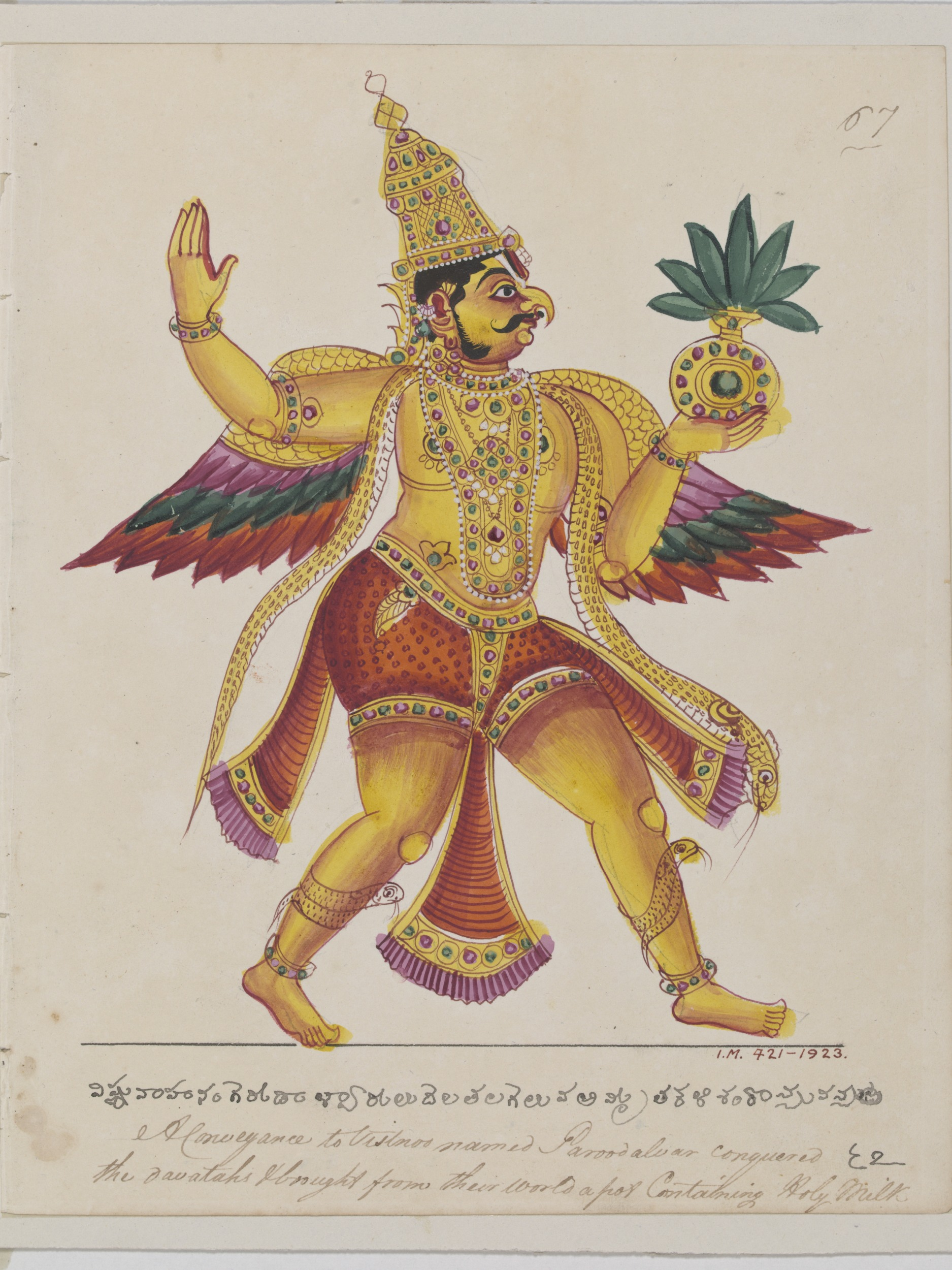 Garuda, the 'vahana' of Vishnu, returning with the vase of Amrita, which he had stolen from the gods in order to free his mother from Kadru, mother of serpents. The 'vahana' is the animal mount or vehicle of a Hindu god or goddess. From a series of 100 drawings of Hindu deities created in South India.